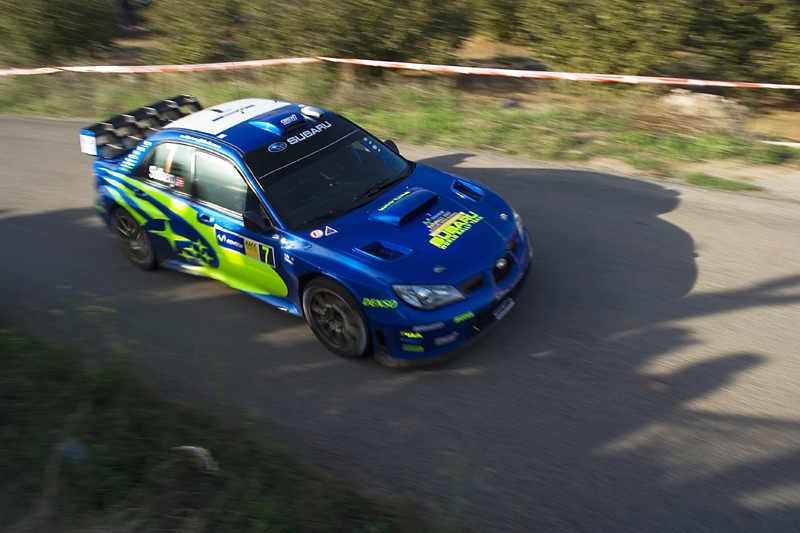 Petter Solberg driving his Subaru Impreza WRC2007 at the 2007 Rally Catalunya.